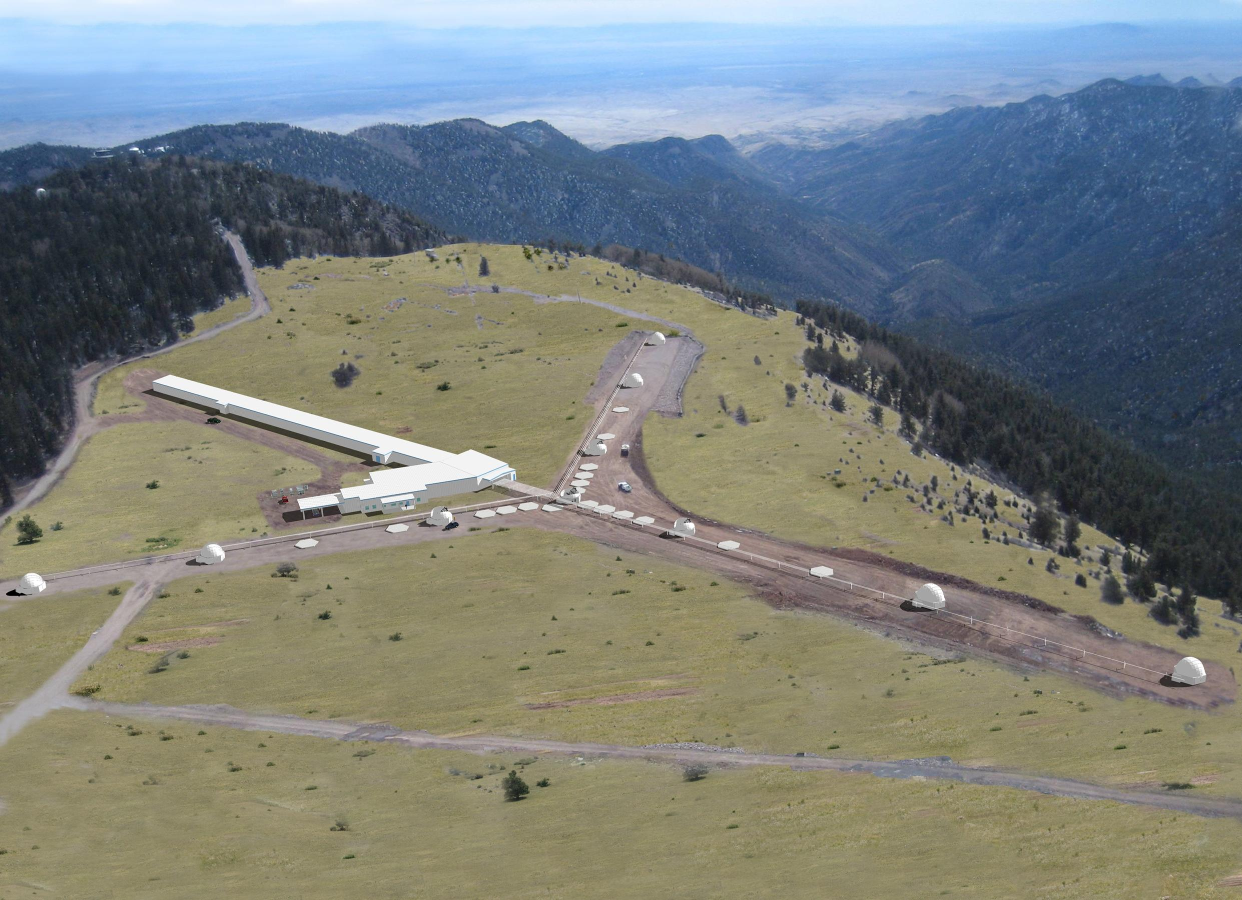 Magdalena Ridge Observatory Interferometer computer graphic overlay of the BCF building and the ten telescopes